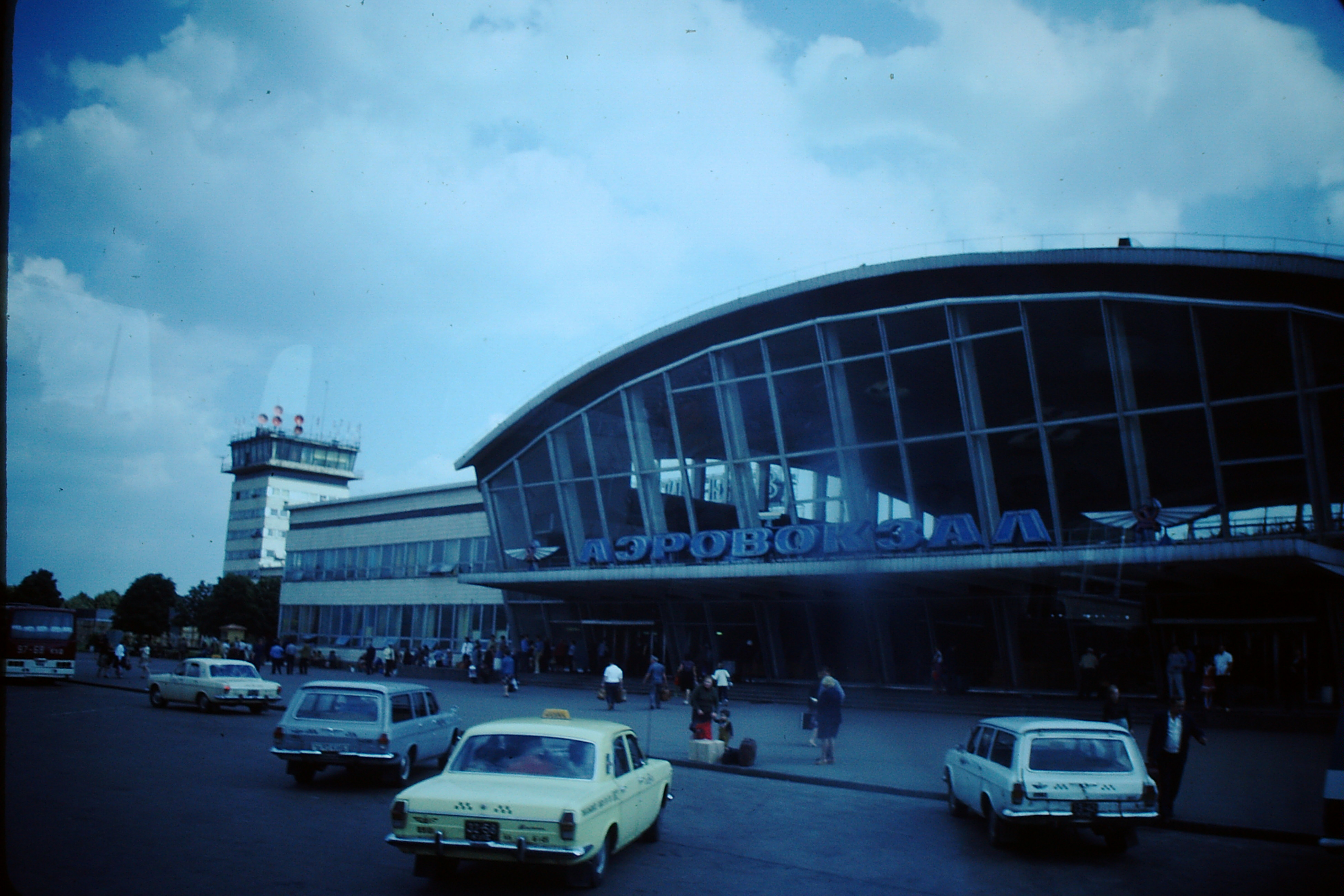 Kiev Borispol airport.